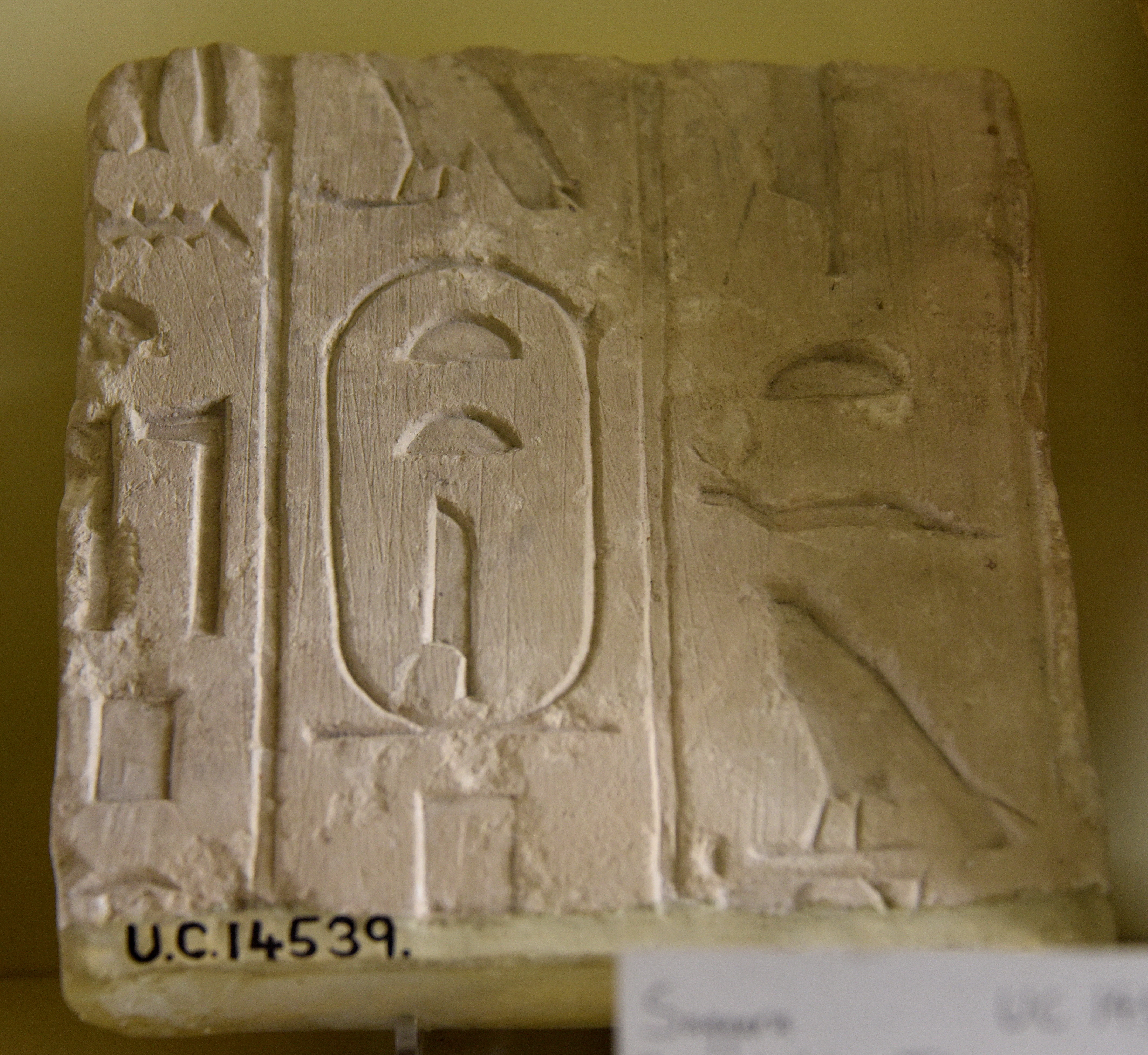 Limestone wall block fragment showing the cartouche of king Teti and 3 columns of funerary literature, "pyramid texts". 6th Dynasty, c. 2300 BCE. From the Pyramid of Teti at Saqqara, Egypt. The Petrie Museum of Egyptian Archaeology, London. With thanks to the Petrie Museum of Egyptian Archaeology, UCL.